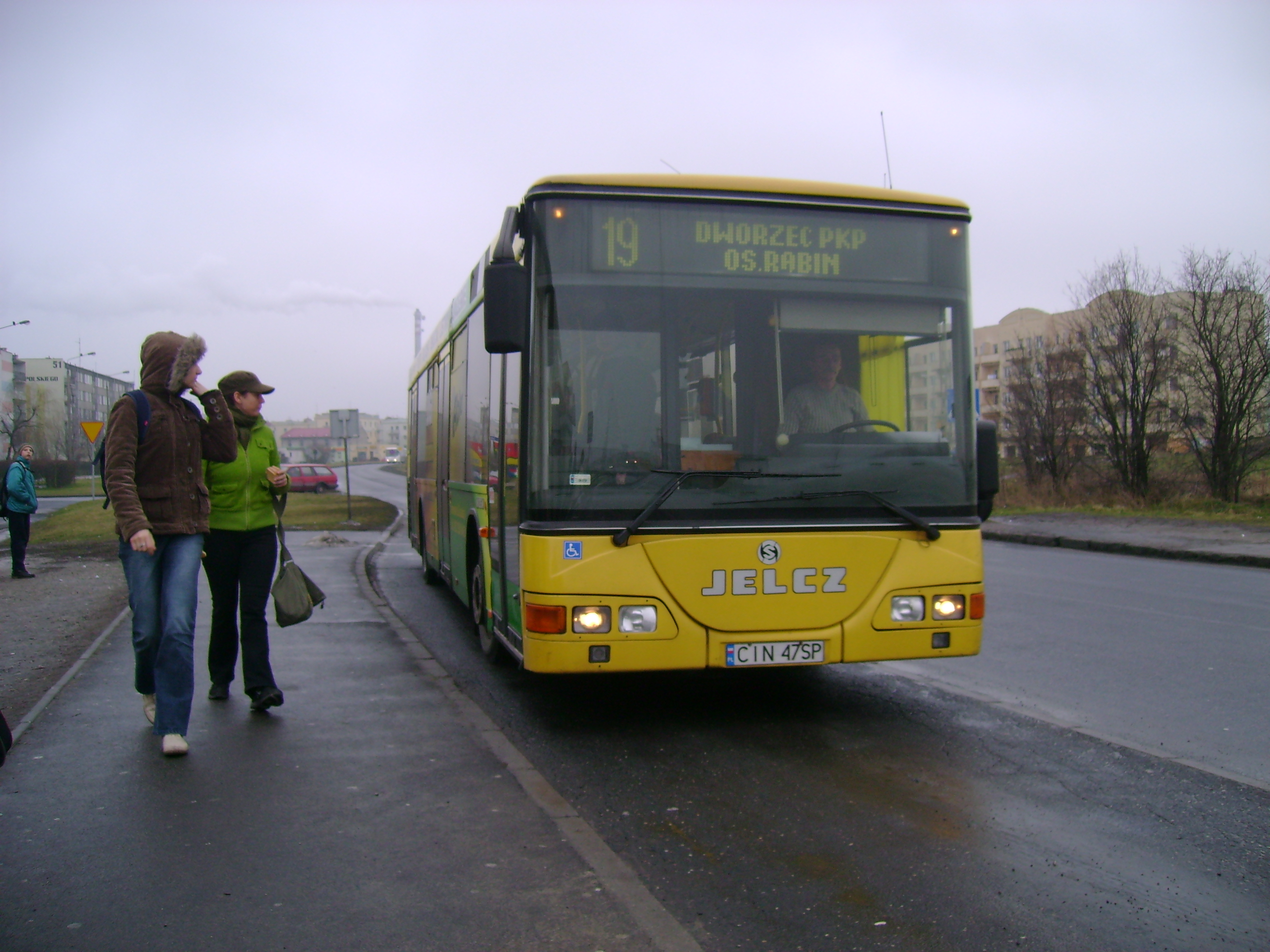 Jelcz M125M Dana bus (#451, reg. BCR 2161). Built 1998, MPK Inowrocław operator.